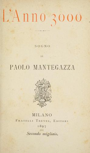 Cover of the novel L'anno 3000. Sogno by Paolo Mantegazza (1897).